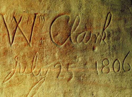 Signature of William Clark, on 1806-07-25 at todays Pompeys Pillar National Monument, Montana